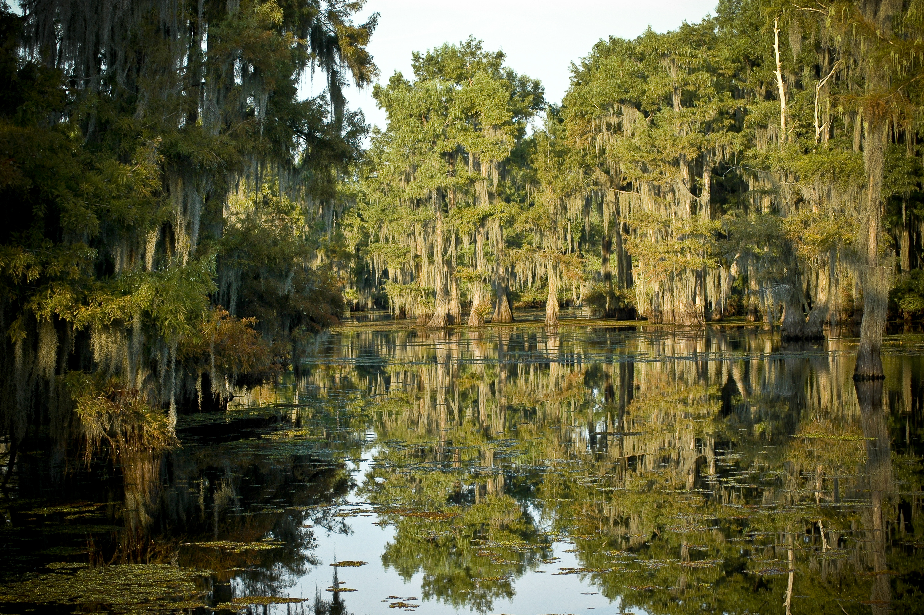 Densely populated cypress trees in Lake Bistineau State Park in Webster Parish, Louisiana